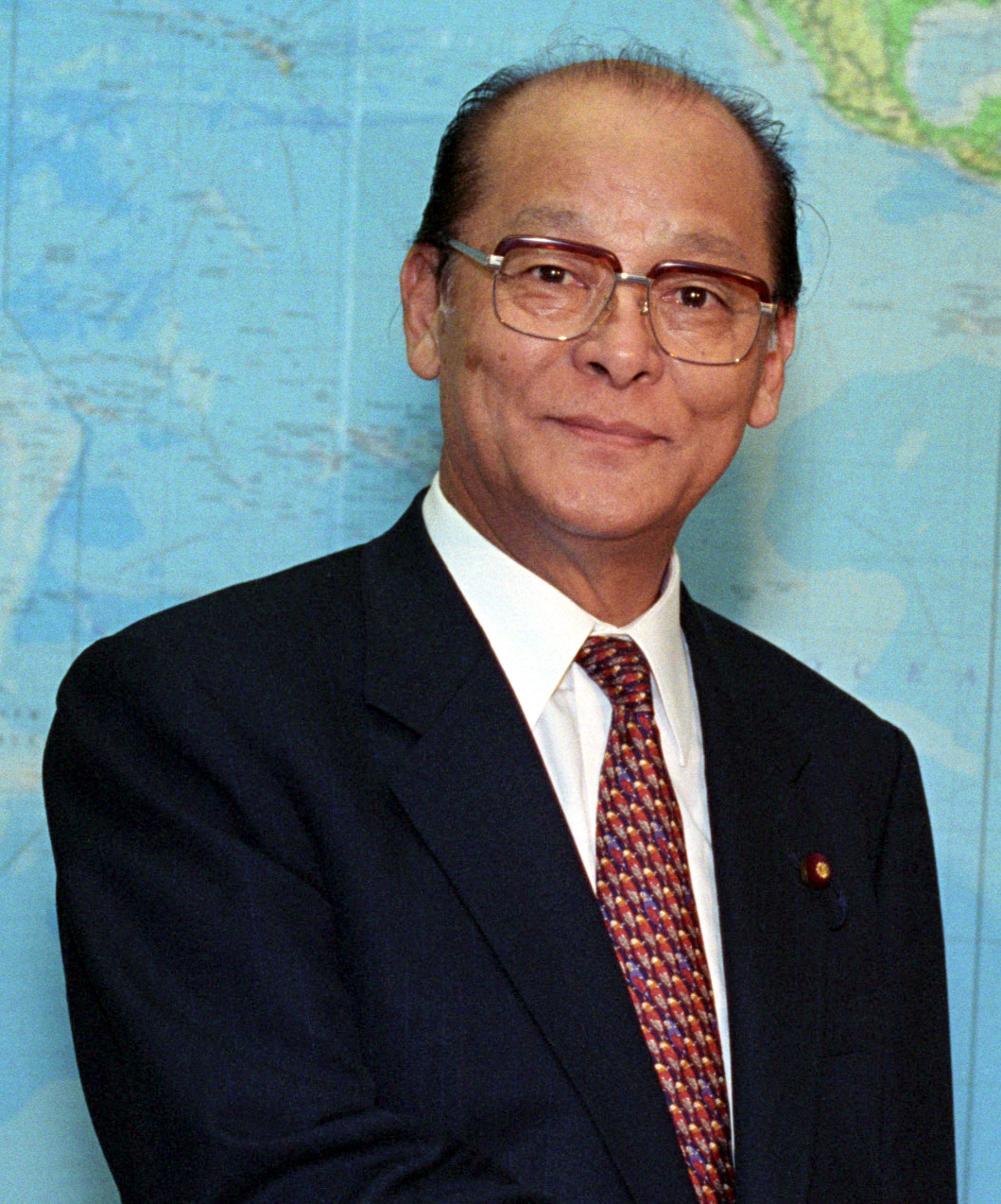 Toshio Nakayama (中山利生), Japanese Minister of Defense, at the Pentagon, Washington, D.C., on May 4, 1993. OSD Package No. A07D-00201 (DOD Photo by Helene C. Stikkel) (Released) (excerpt from the original text)